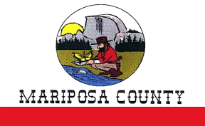 The official flag of the County of Mariposa, consisting of a red stripe below the words "MARIPOSA COUNTY", and an image of a gold prospector before a scene of the Yosemite Half Dome.